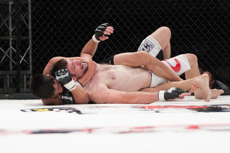 Rear Naked Choke attempt in amateur MMA event.